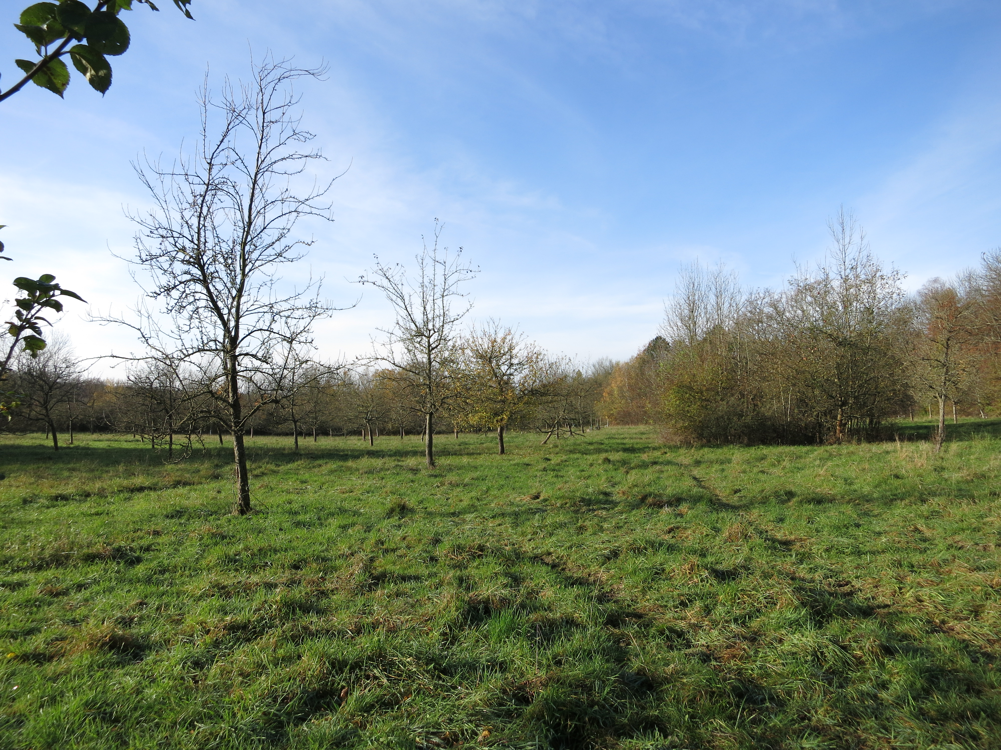 Sengersfeld, meadow near Goettingen with 49 different historical fruit tree species